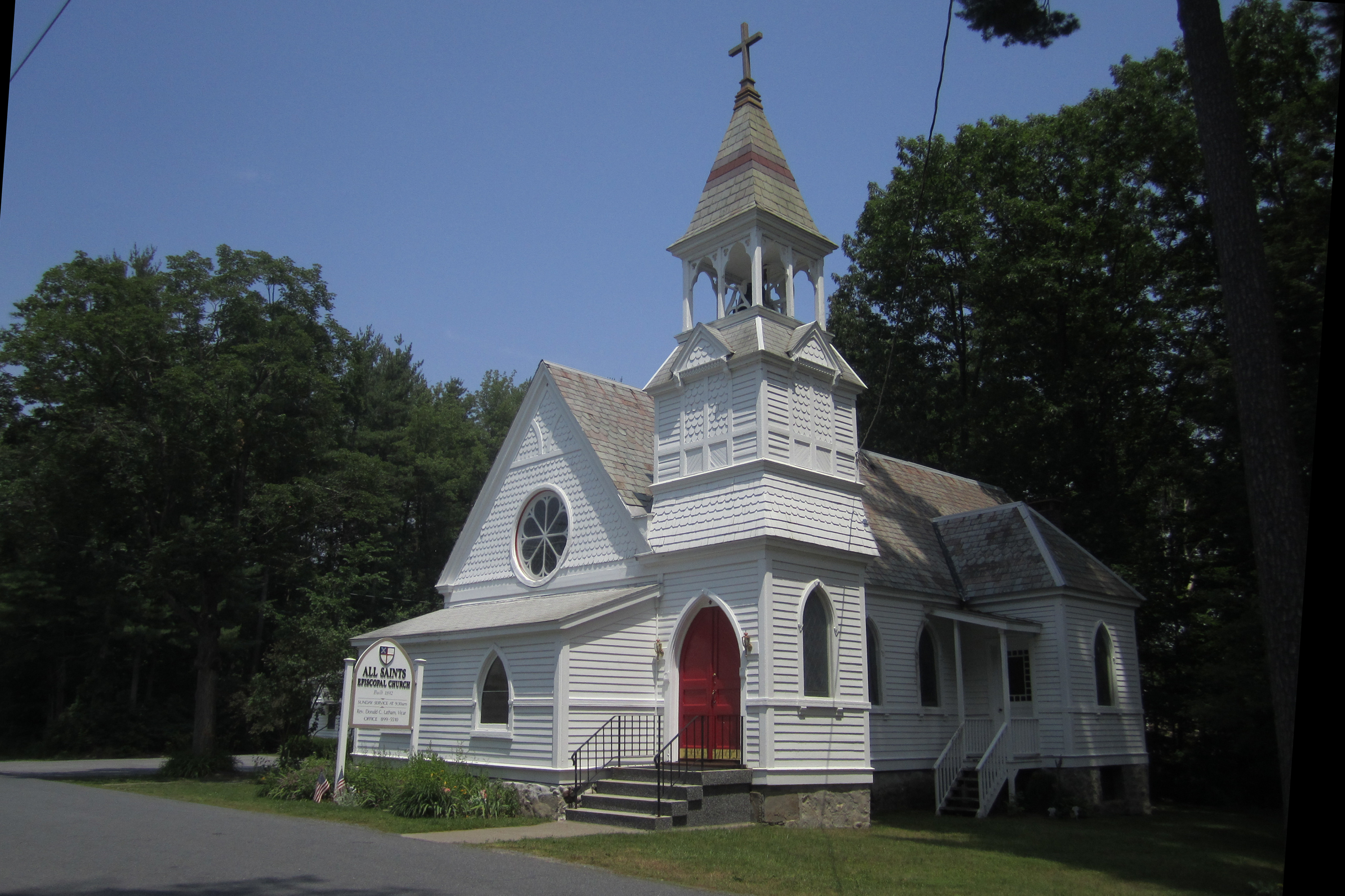 All Saints Episcopal Church, Round Lake New York. Carpenter Gothic style church erected 1892.